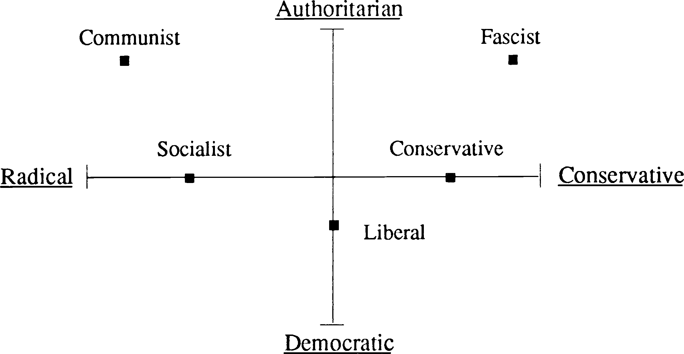 Two-dimensional diagram of the political spectrum according to Hans Jürgen Eysenck